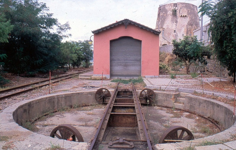 The railway turntable and behind the rolling stock depot in Arbatax, Sardinia, Italy, in front of the old station of the village